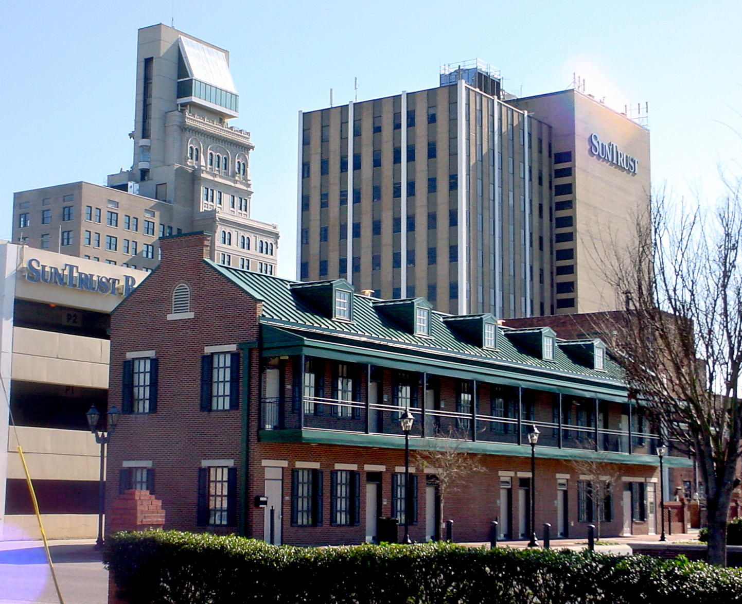 The Augusta Common and the Lamar Building in Augusta, GeorgiaAugusta Common and the Lamar Building